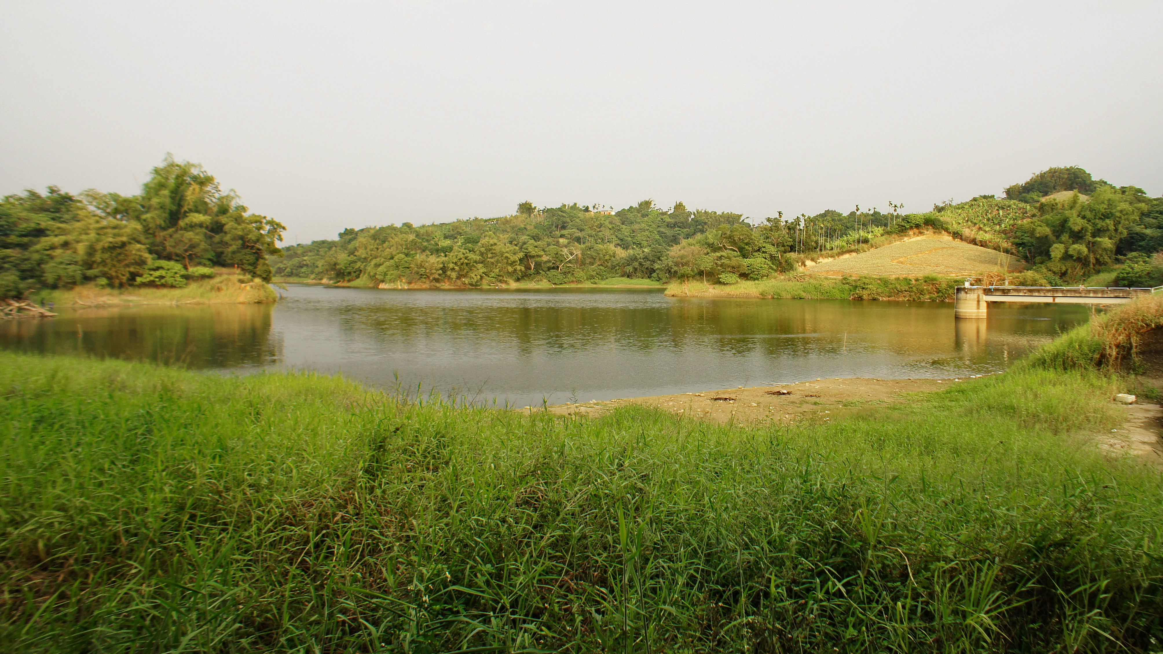 Napuzi Reservoir, Minsyong, Chiayi, Taiwan.